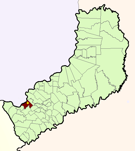 Map showing municipio of Santa Ana in Misiones Province, Argentina. The big point is Santa Ana town, the little one is Puerto Santa Ana.